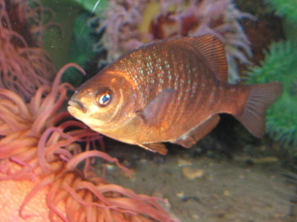 Black surfperch (Embiotoca jacksoni). Taken at the New England Aquarium (Boston, MA, December 2006. Copyright © 2006 Steven G. Johnson and donated to Wikipedia under GFDL and CC-by-SA.